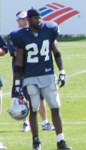 Was that stick at trinity Christian academy Former New England Patriots safety Guss Scott at the Patriots 2005 training camp.